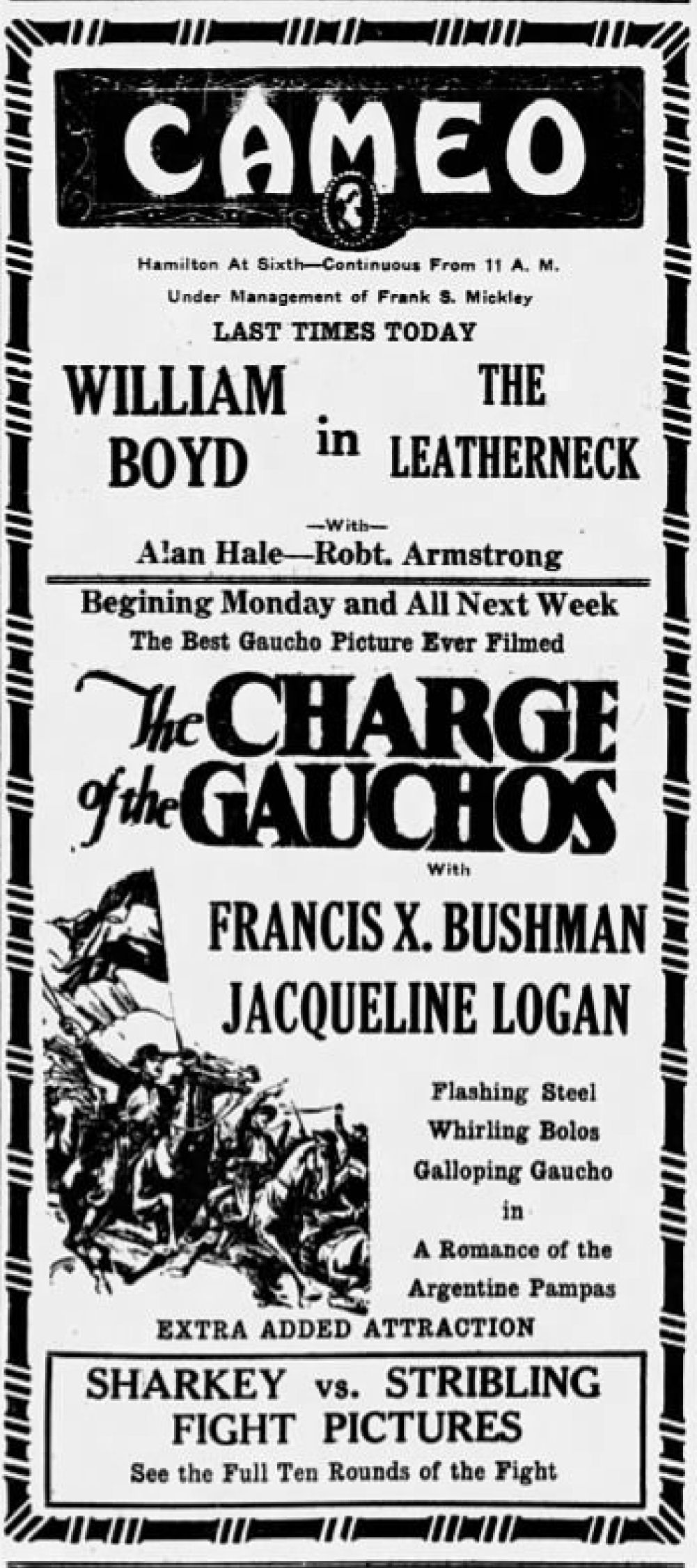 Cameo Theater advertisement for the film The Charge of the Gauchos (1928) (U.S. title for the Argentine-American film Una Nueva y gloriosa nación) - 13 Mar. 1929 Morning Call, Allentown, PA